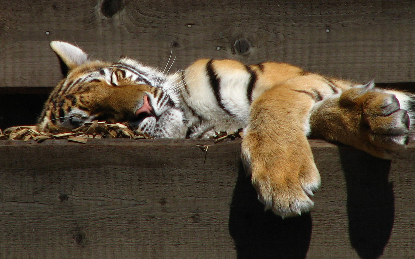 This is a picture of a Siberian, or Amur, Tiger (Panthera tigris altaica). Kolmårdens djurpark (zoo), Sweden.